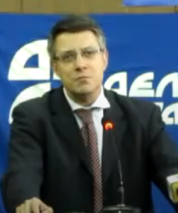 Aleksandar Popović, Serbian politician